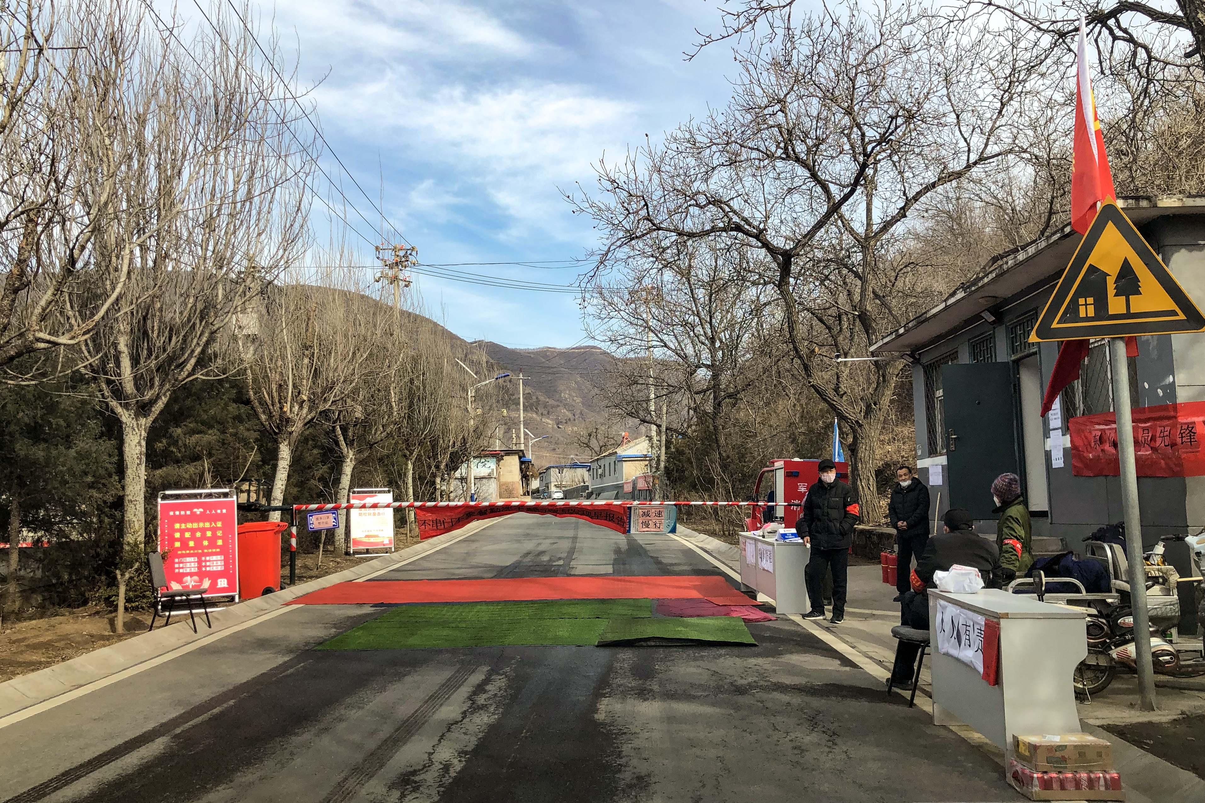 Villages establish "border control points" to prevent non-residents from entering.